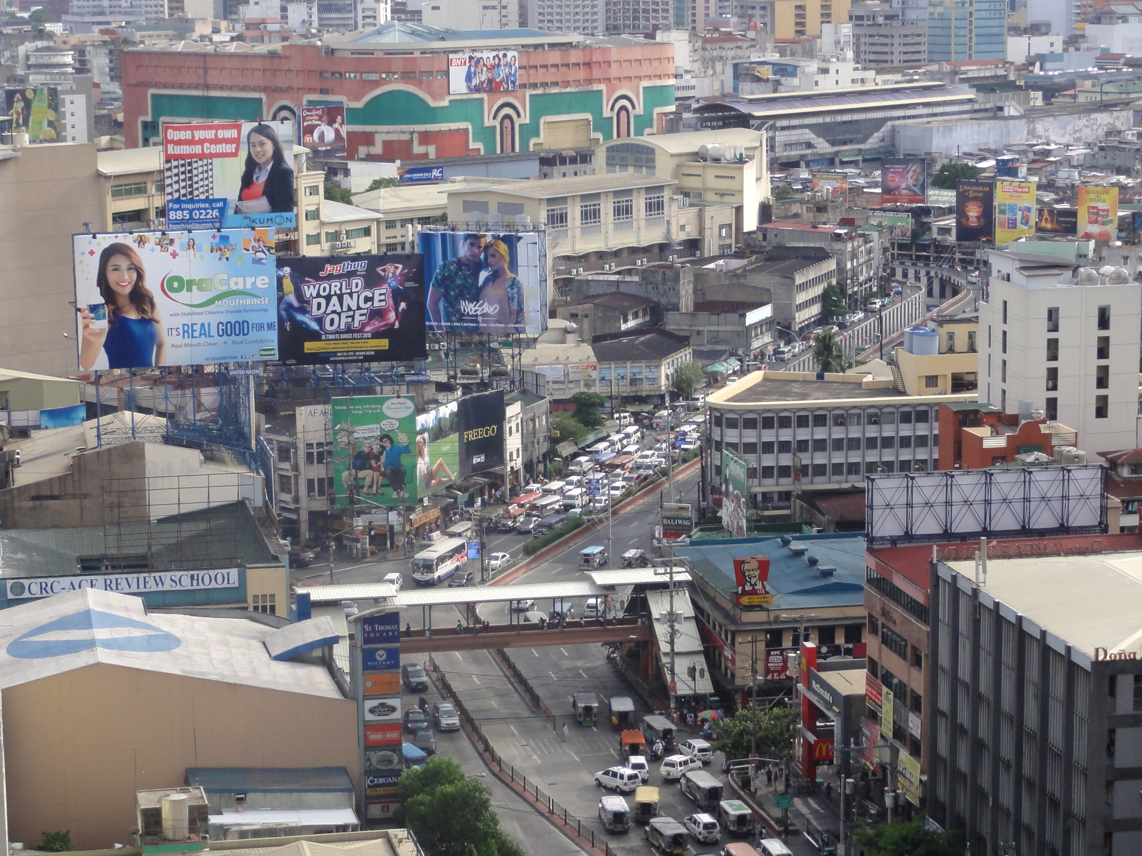 Intersection of España Boulevard, N. Reyes Street (Morayta) and Lerma Street in Sampaloc, Manila as of June 2015. It is part of the Manila's University Belt.